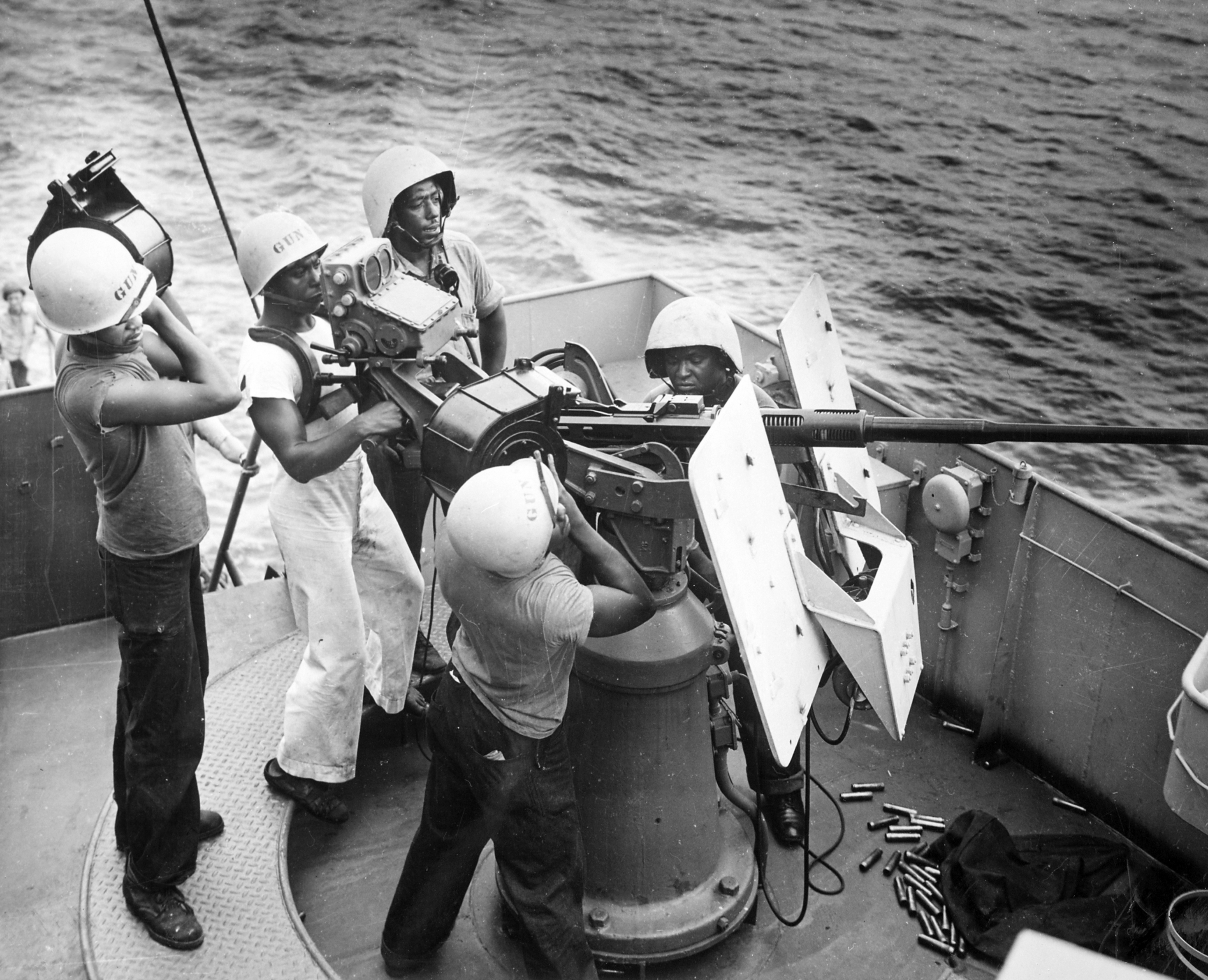 "Five steward's mates stand at their battle stations, as a gun crew aboard a Coast Guard-manned frigate in the southwest Pacific. On call to general quarters, these Coast Guardsmen man a 20mm AA gun. They are, left to right, James L. Wesley, standing with a clip of shells; L. S. Haywood, firing; William Watson, reporting to bridge by phone from his gun captain's post; William Morton, loading a full clip, assisted by Odis Lane, facing camera across gun barrel." , ca. 1941 - ca. 1945